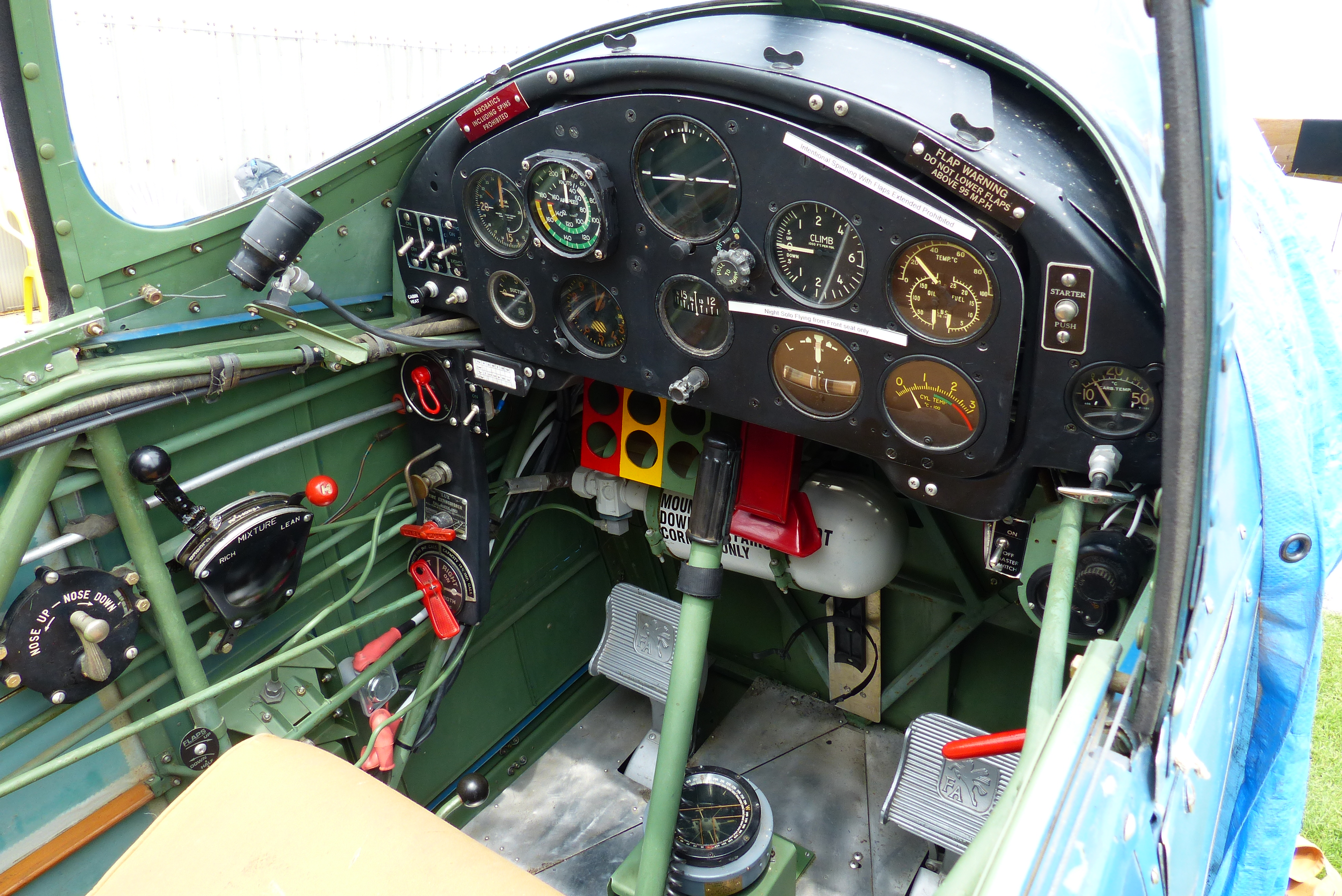 Port side of a Commonwealth Cornell's cockpit. CF-NOR, Royal Norwegian Air Force. Tiger Boys Aircraft Works, Guelph Airpark. Taken with permission of Mr. Tom Dietrich. Aircraft details: Fairchild-M-62A-3, Serial FV-688 Dec 1943, restored by Allan Mather.